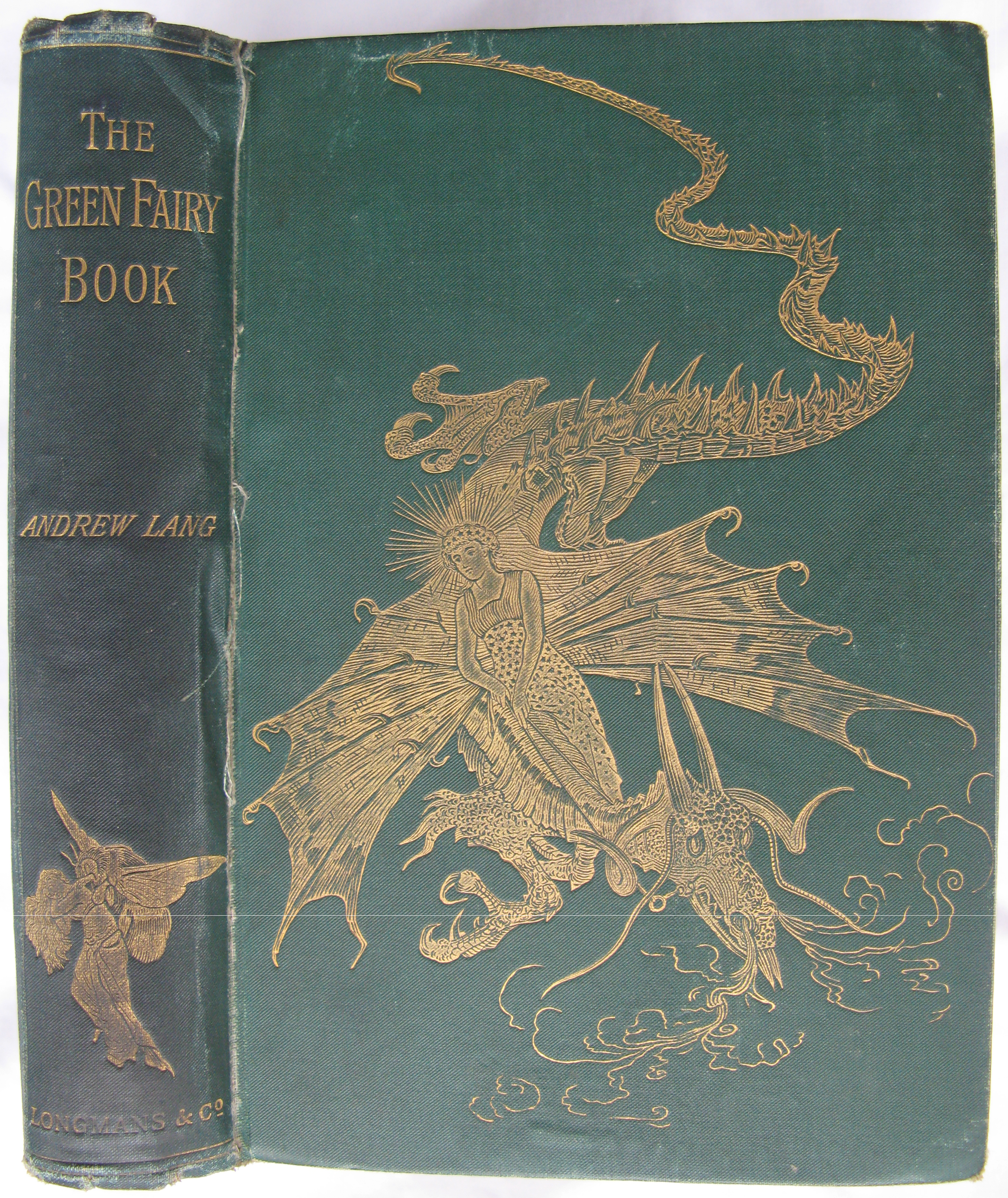 Cover of 1892 edition of Andrew Lang's "Green Fairy Book"